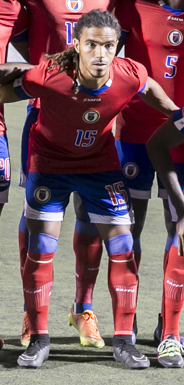 NICARAGUA VS. HAITI 3 - 0